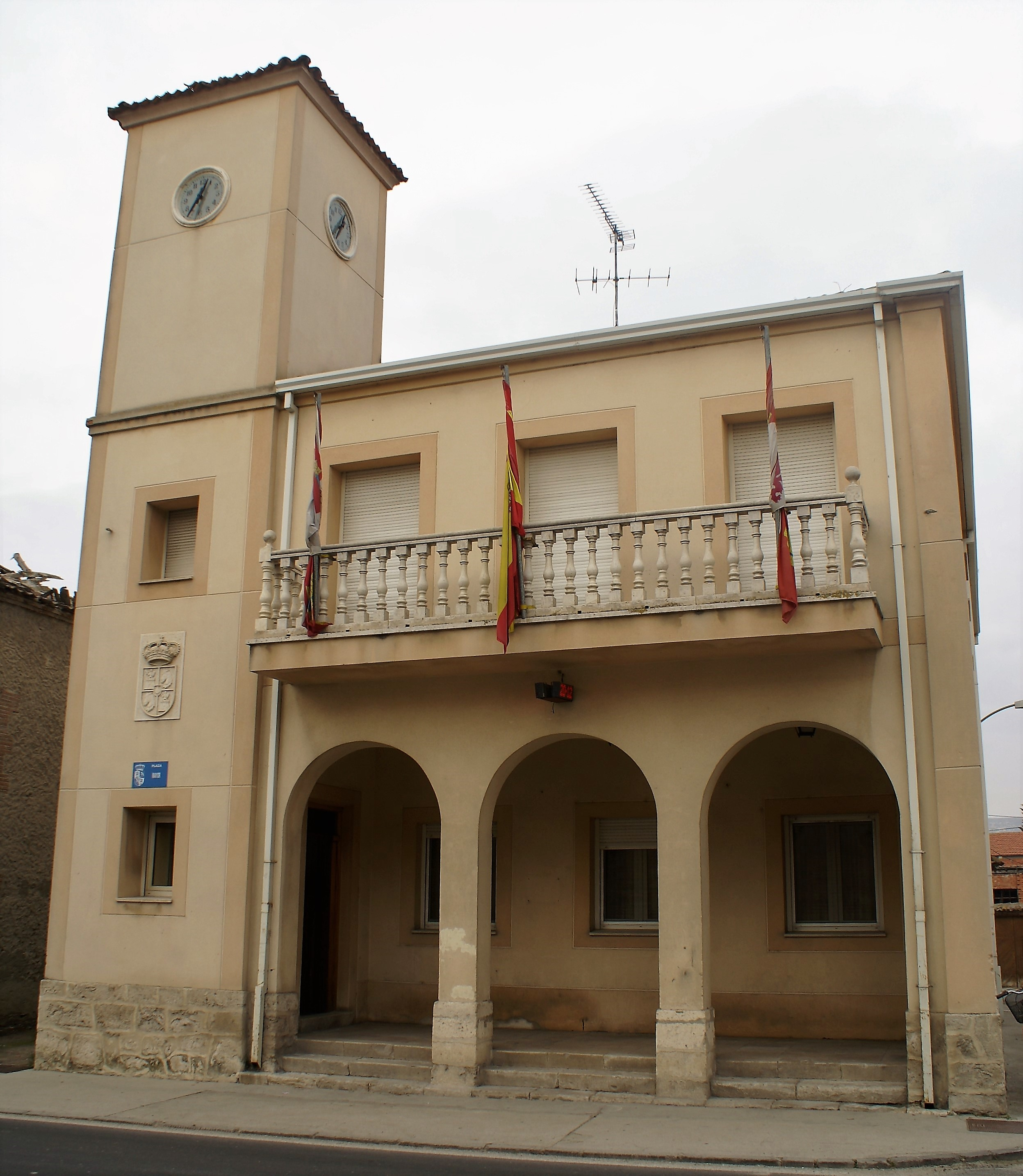 Town hall of Vallelado, Segovia, Spain.